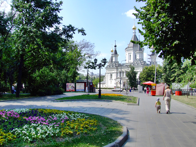 Moscow_deviche_field